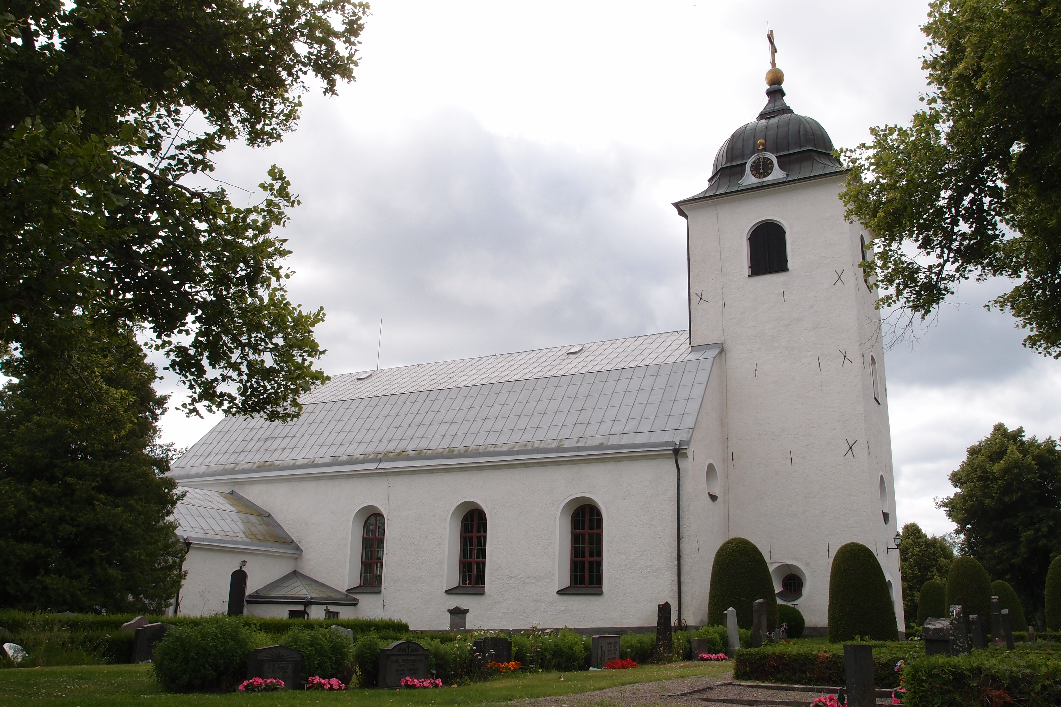 Västra Eneby Church